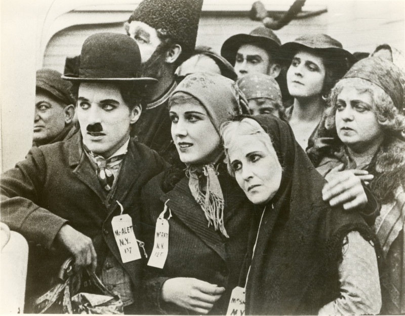 Promotional photograph for The Immigrant (1917).